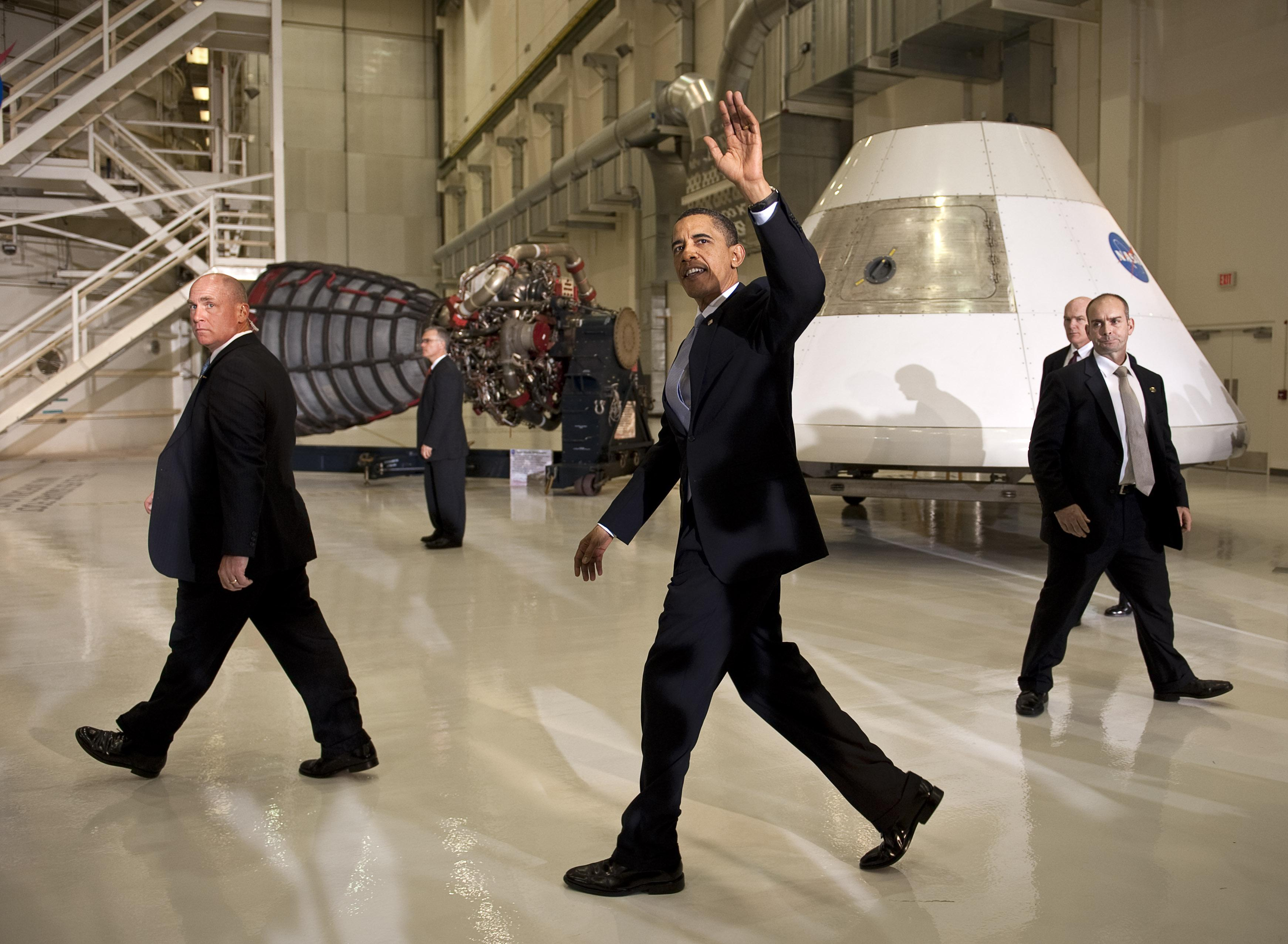 United States President Barack Obama waves farewell after speaking at the Operations and Checkout Building at Kennedy Space Center in Cape Canaveral, Florida on Thursday, 15 April 2010. Obama visited the Center to speak about the future of American human space flight.